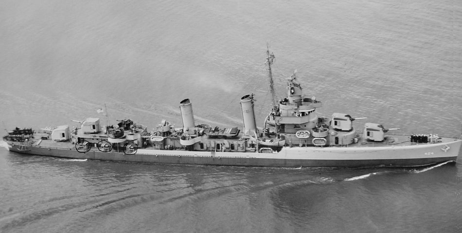 The U.S. Navy destroyer USS Niblack (DD-424).